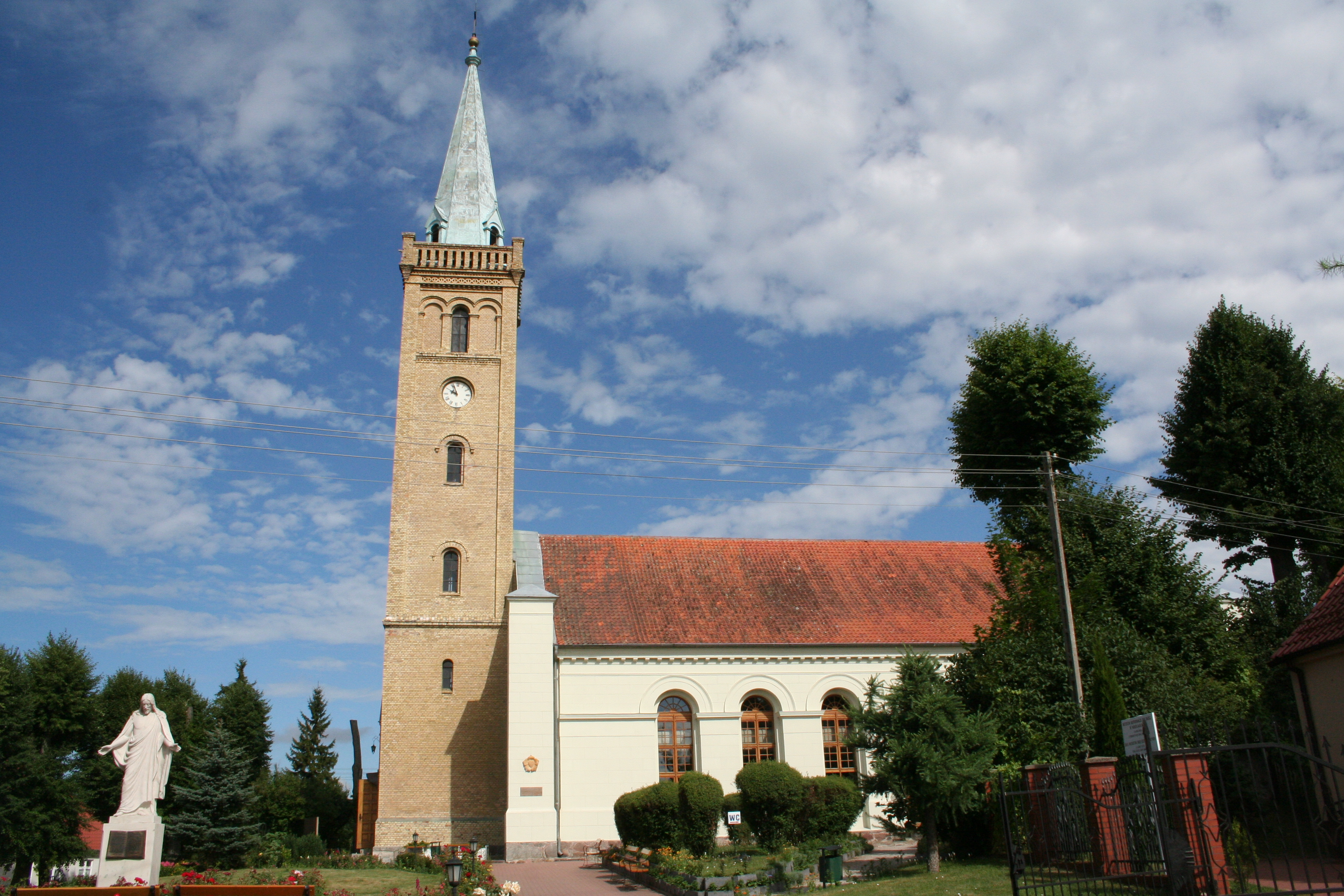 Holy Trinity church in Mikołajki